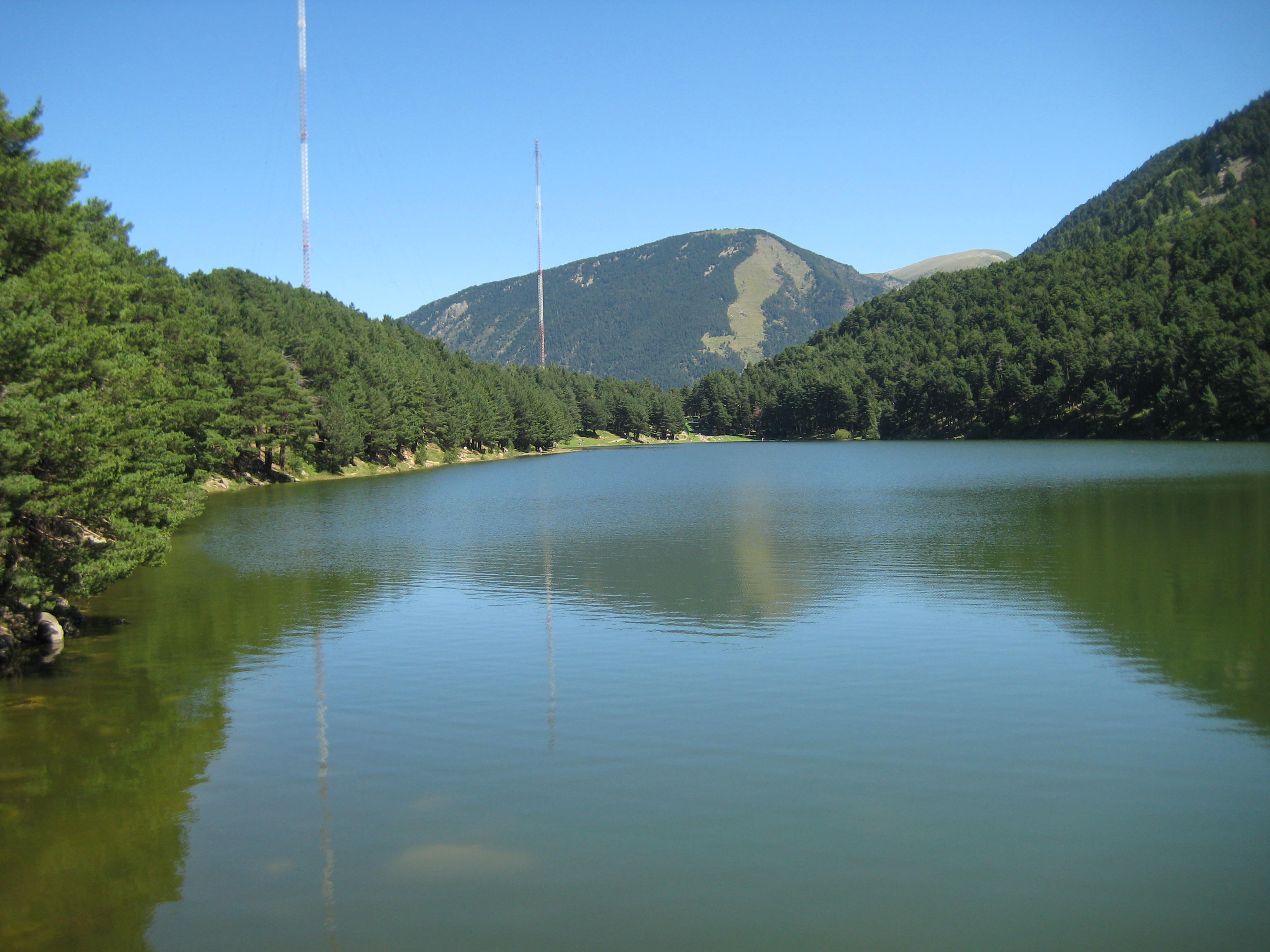 Engolasters Lake